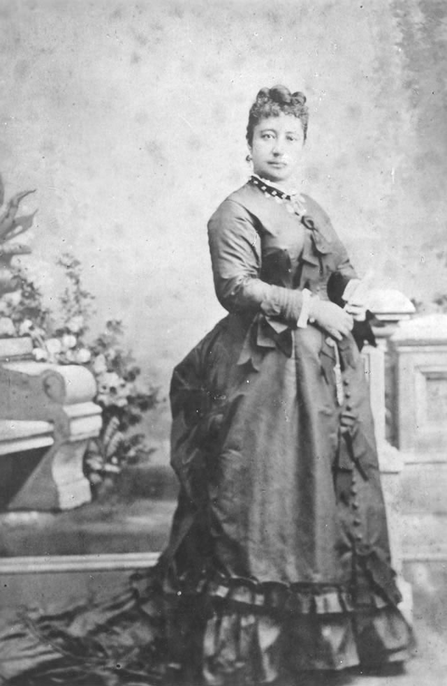 Bernice Pauahi Bishop.